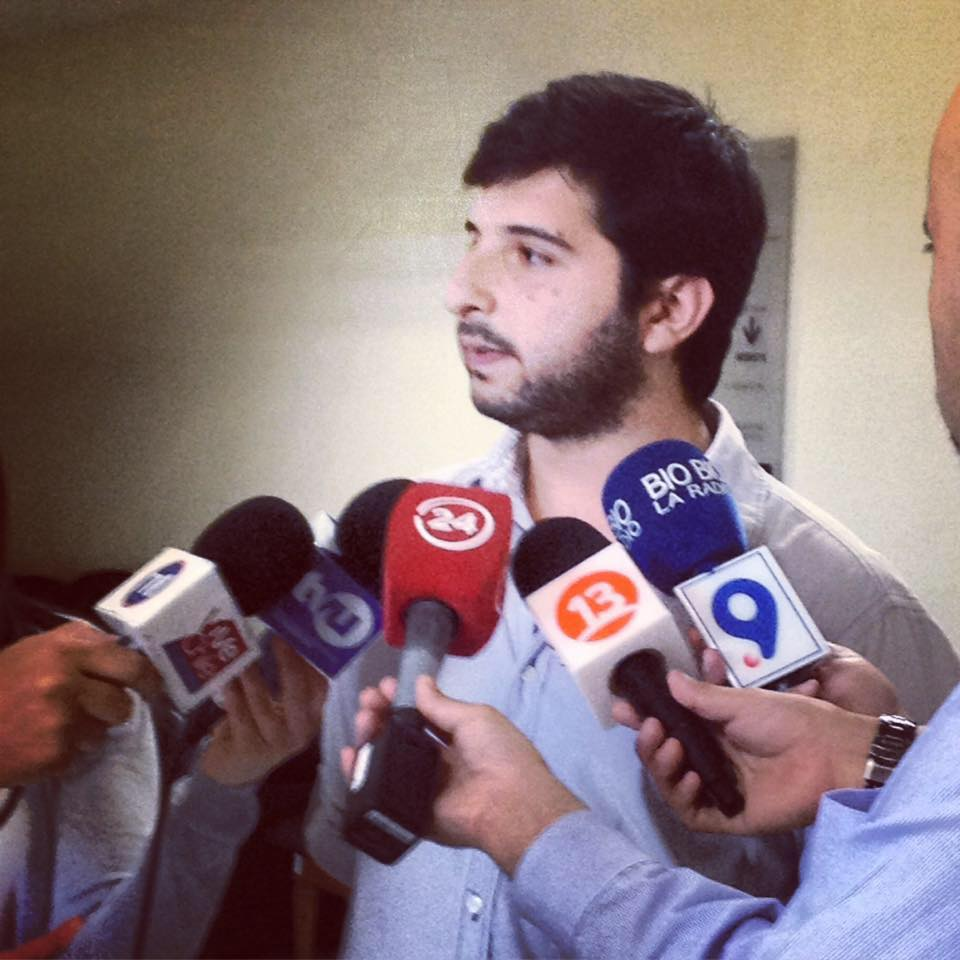 RUEDA DE PRENSA